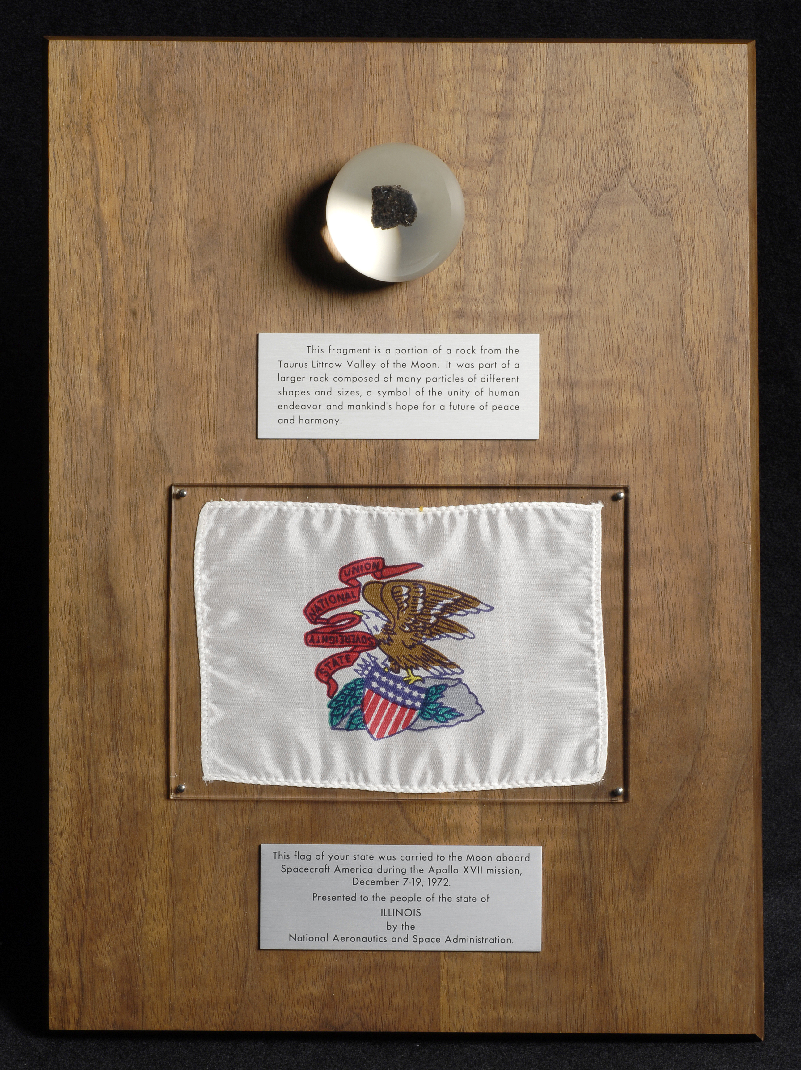 Rock fragment (encased in acrylic) from the Apollo 17 mission to the moon. Donated to the State of Illinois along with the state flag, which accompanied the mission. Image courtesy of the Illinois State Museum and NASA.